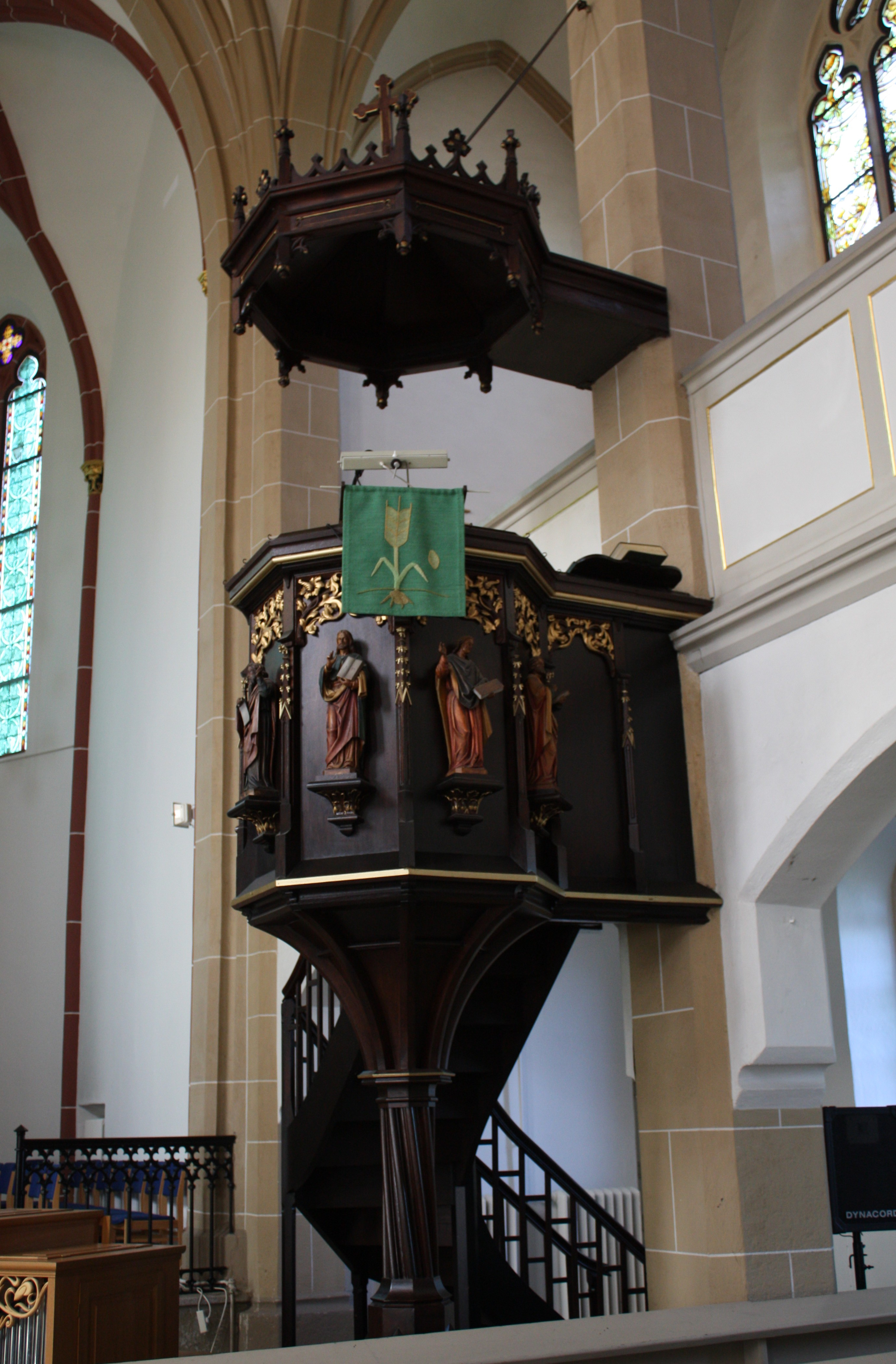 Martin Luther Church Oberwiesenthal, pulpit.